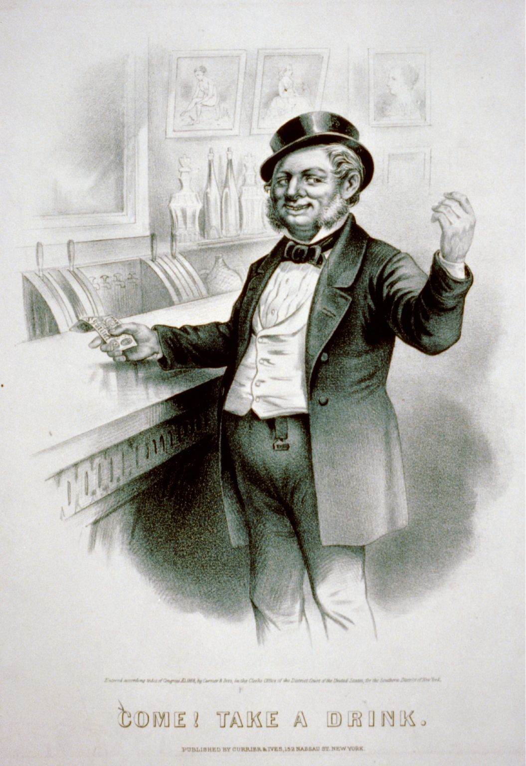 Come! Take a drink